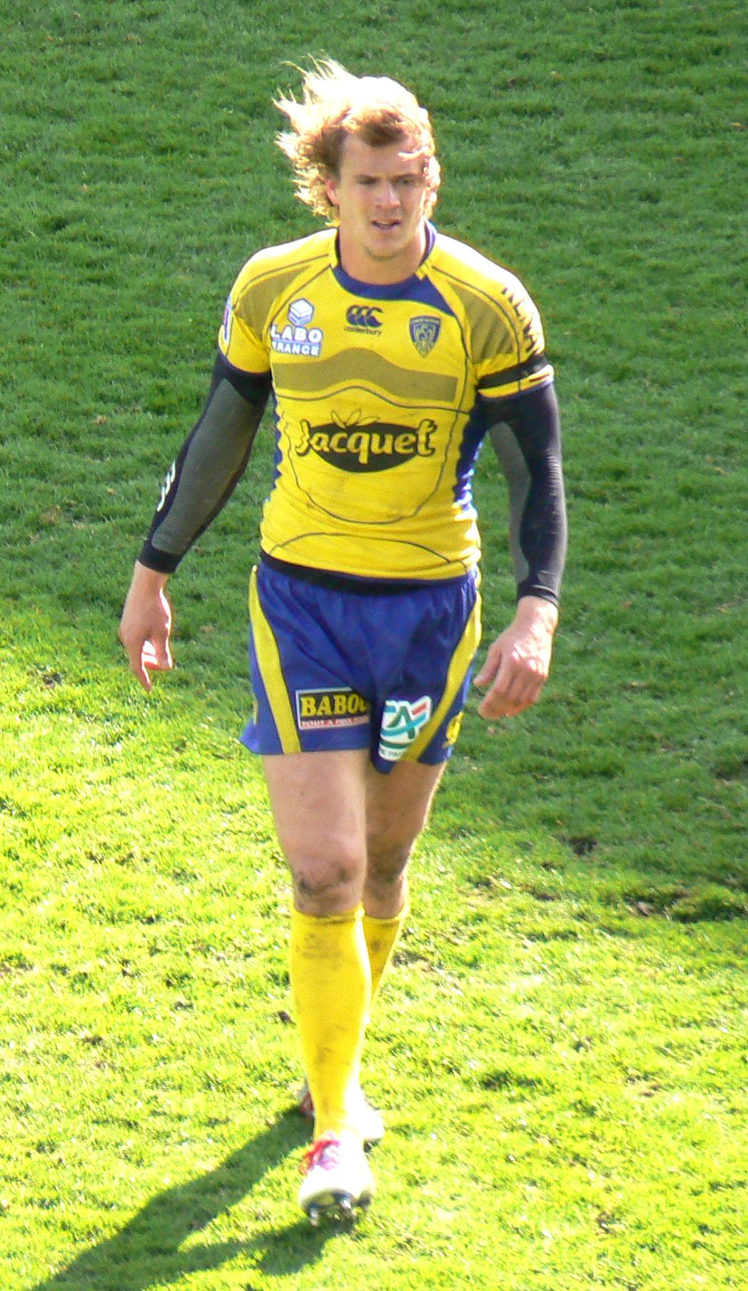 The french rugbyman Aurélien Rougerie with ASM Clermont Auvergne